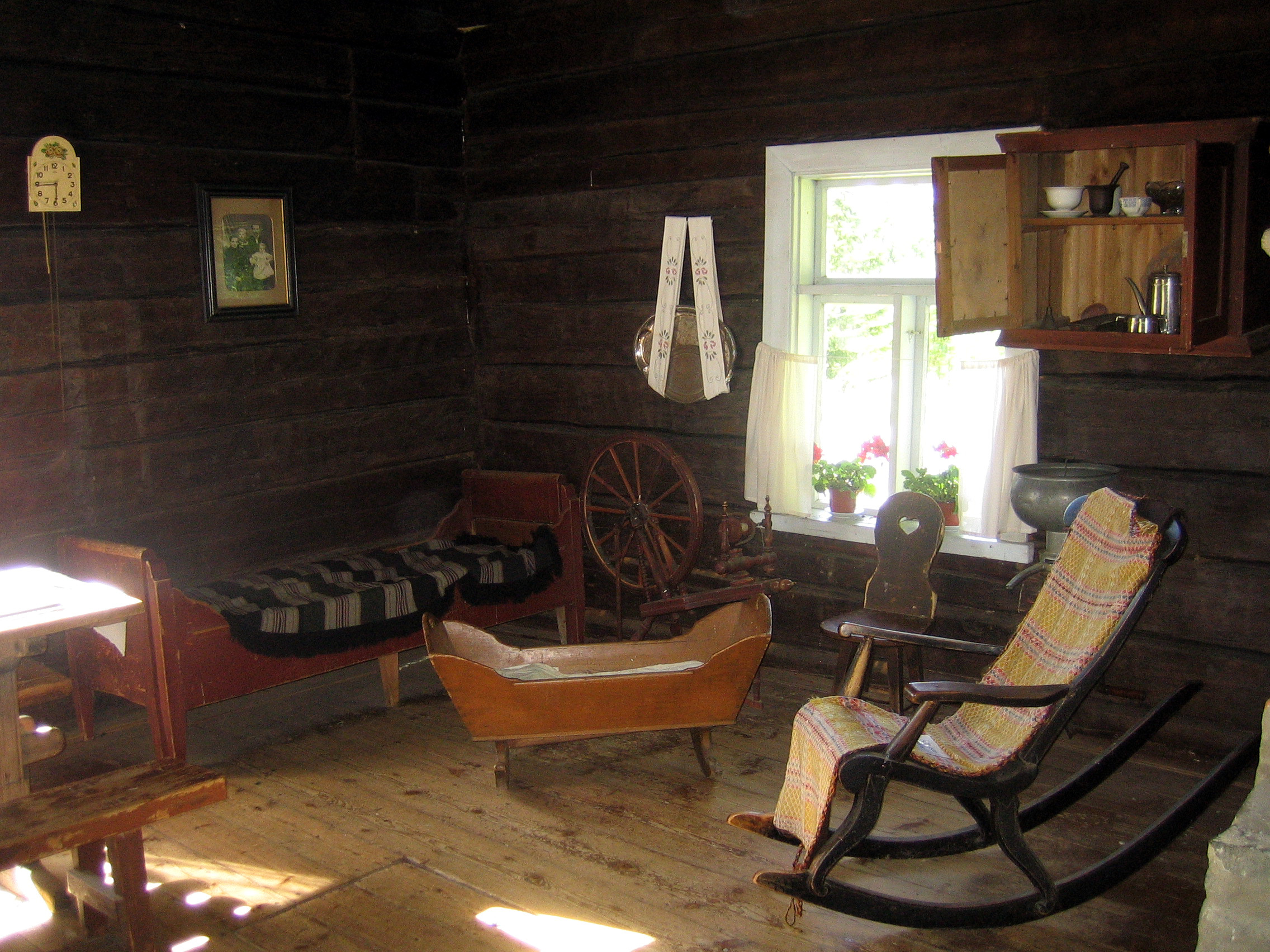 Lepikko Cottage (Lepikon torppa), Pielavesi, Finland. Interior.